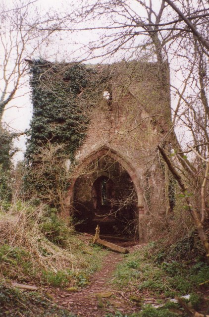 13th-century west tower of the ruin of St Mary's parish church, Avenbury, Herefordshire, seen from the east